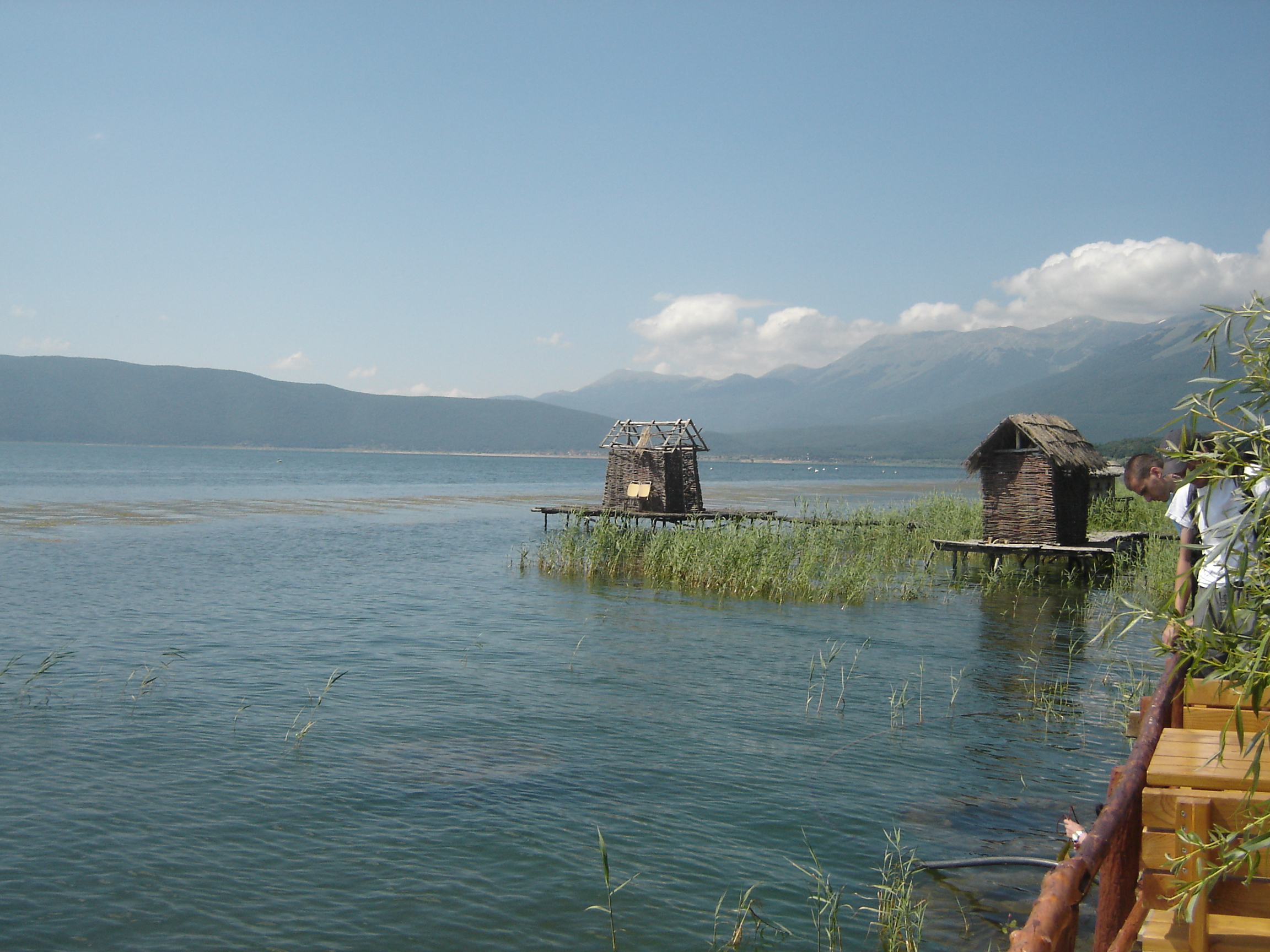 Fisherman's cabins at "Ribarsko Selo" (Oteshevo, Macedonia)